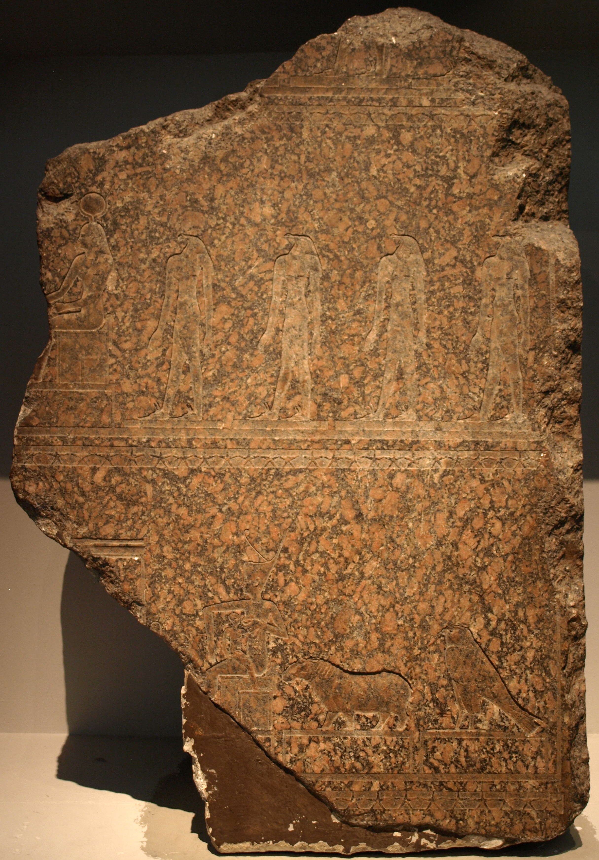 Fragment of a red granite shrine of Nectanebo II. Originally from Bubastis, 30th dynasty, circa 350 BC. EA 1078.